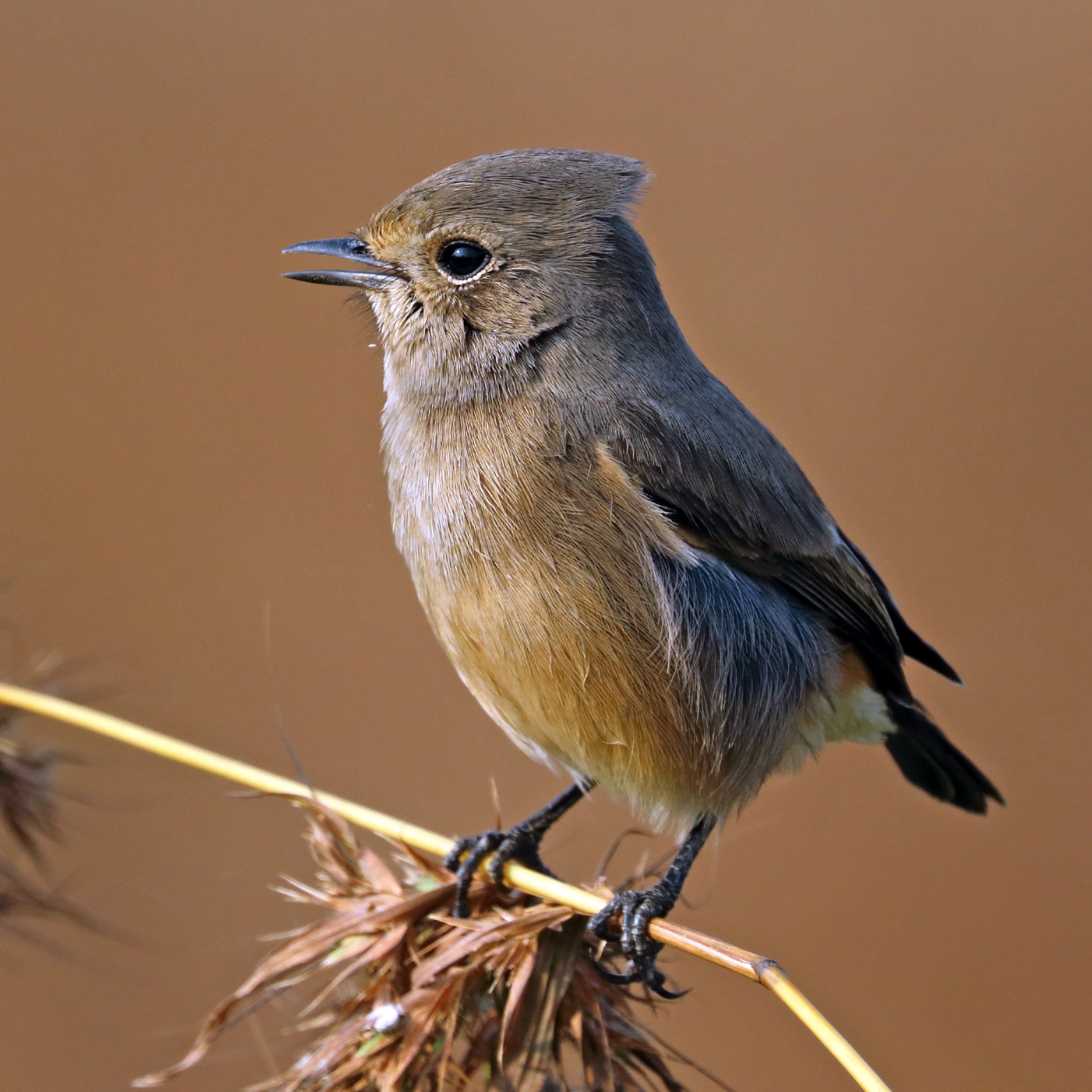 Pied bushchat (Saxicola caprata bicolor) female, Pench National Park, MP, India